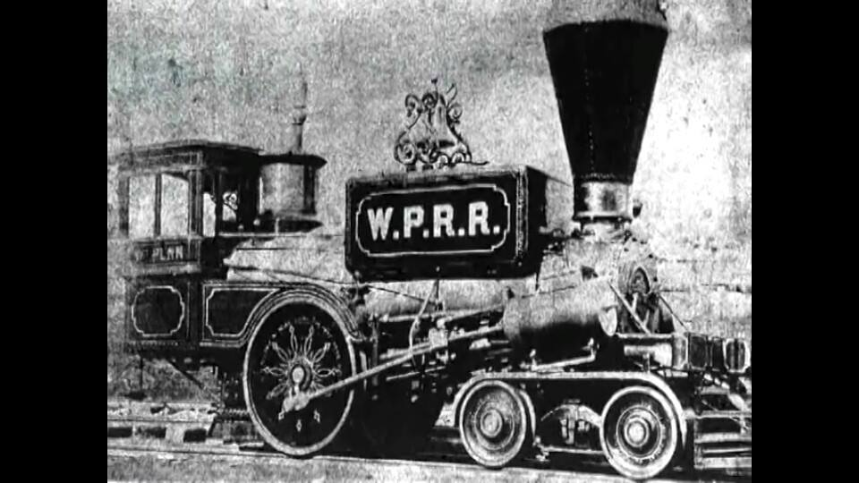 Strasburg Rail Road's first steam locomotive "William Penn"